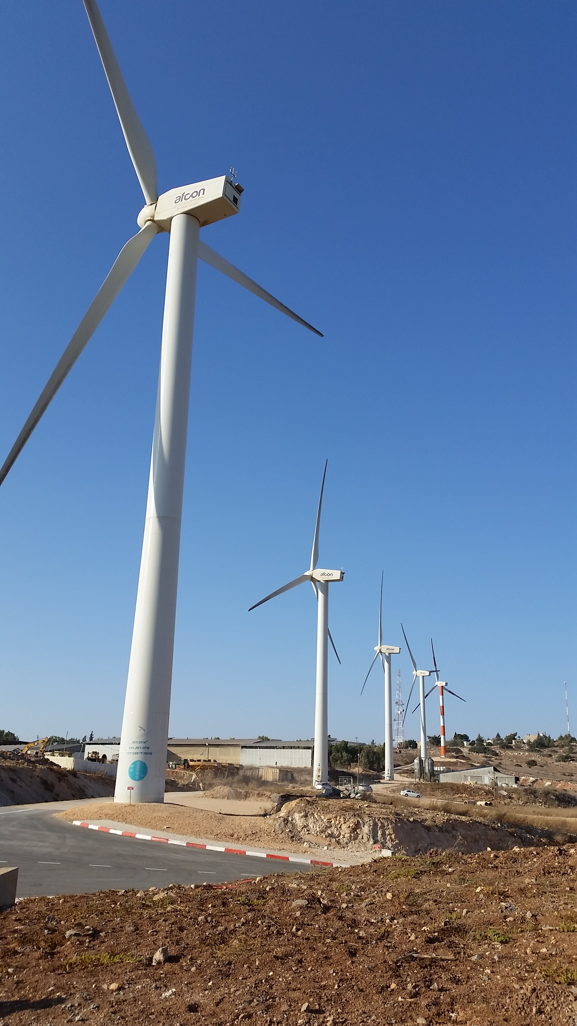 Ma'ale Gilboa wind farm turbines line